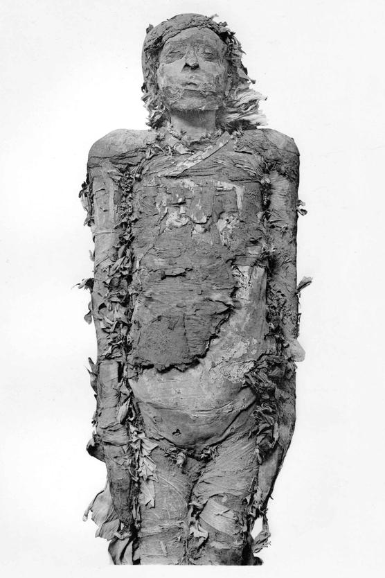 Mummy of Pinedjem II, High Pirest of Amun in Thebes during the 21st dynasty, found in DB320.